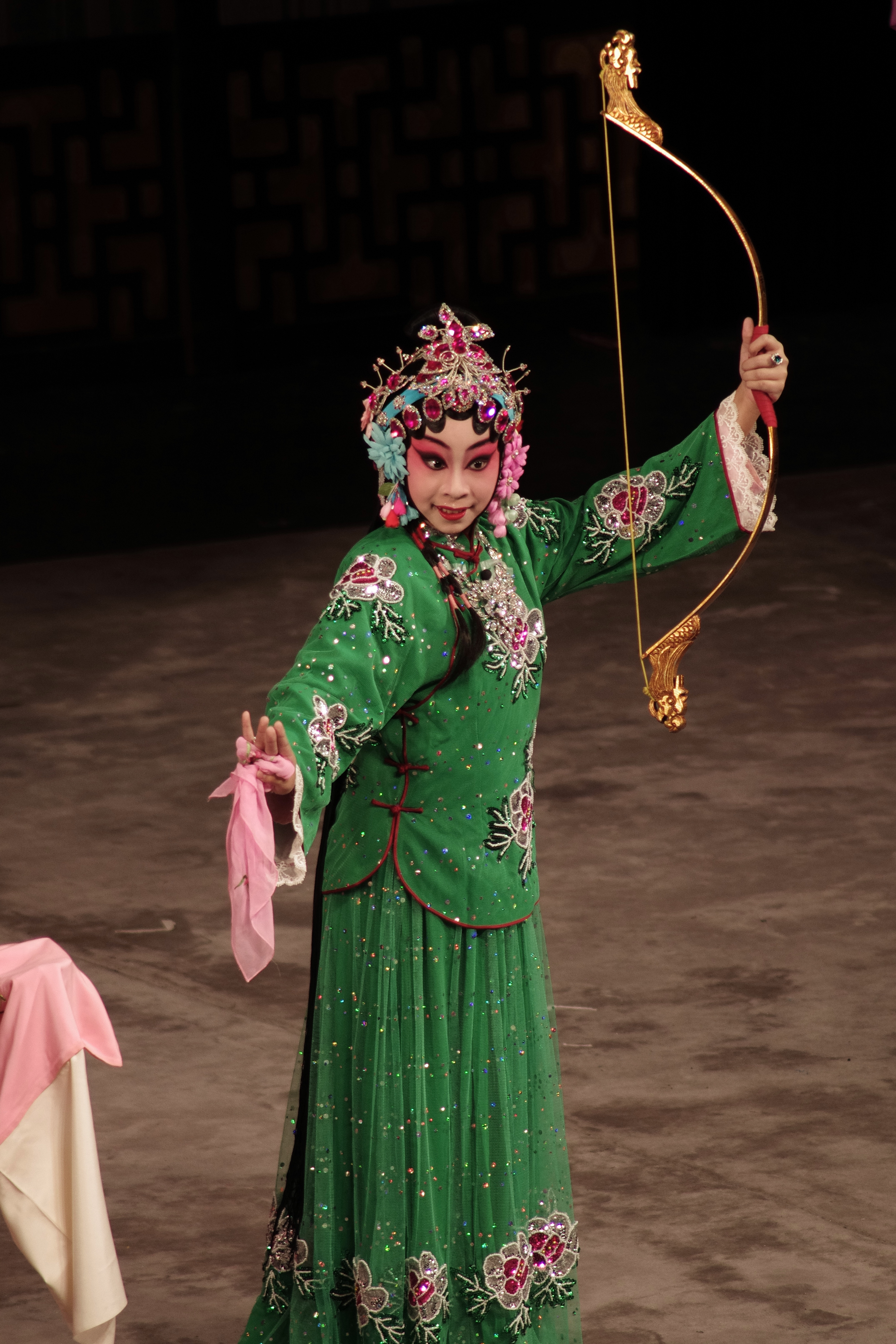 A Peking opera performance in Tianchan Theatre starring Zhou Zhiru (周芷如) as Xun Guan